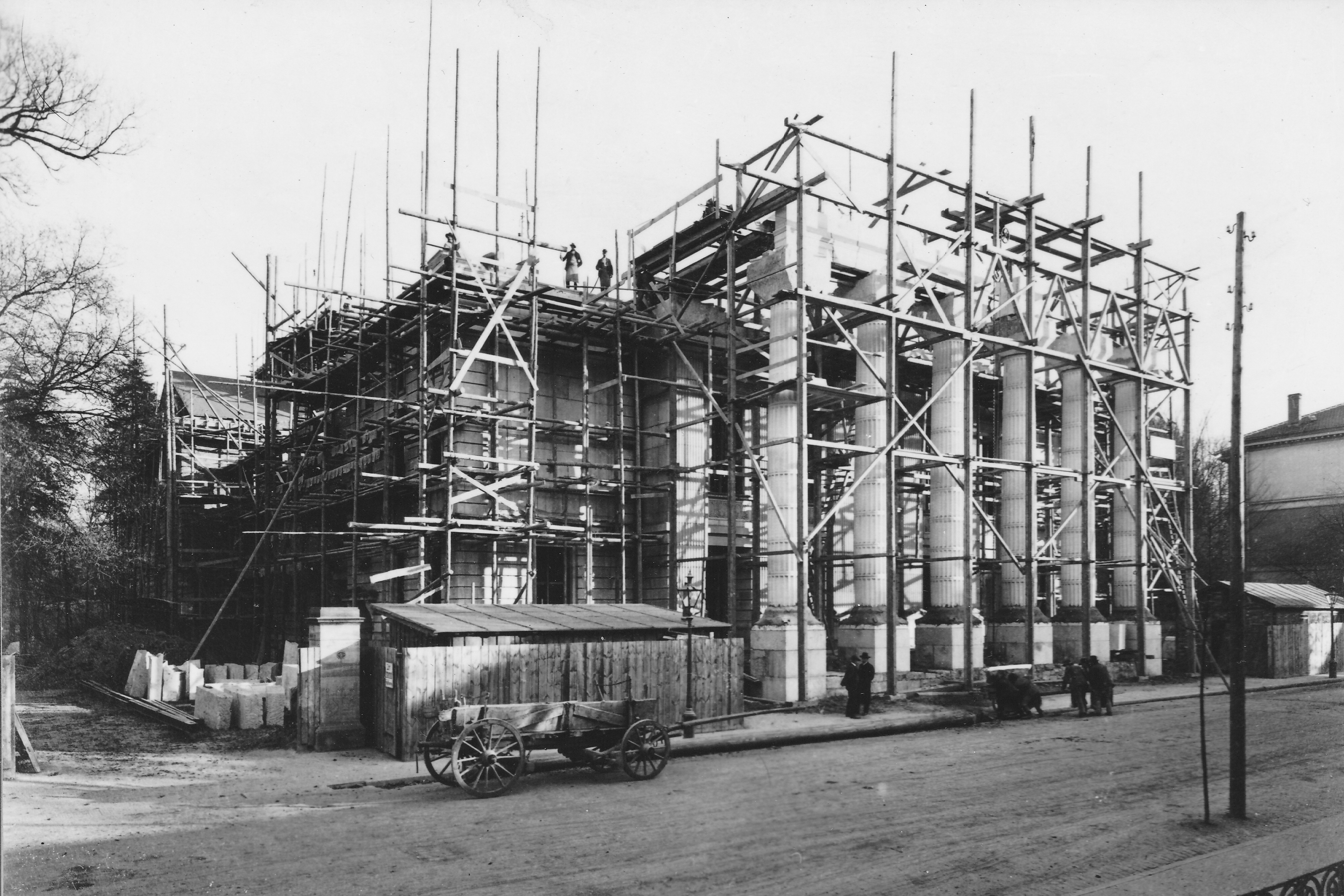 Construction of the Meininger Theater in the beginning of 1909, after the previous building burned down in 1908.